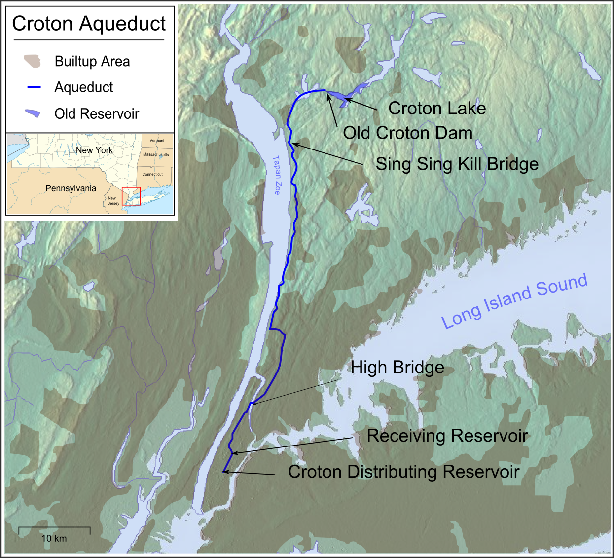 General map of the Croton Aqueduct constructed for New York City